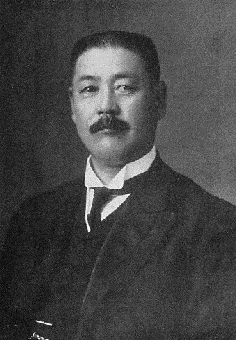 Iwao Matsukata